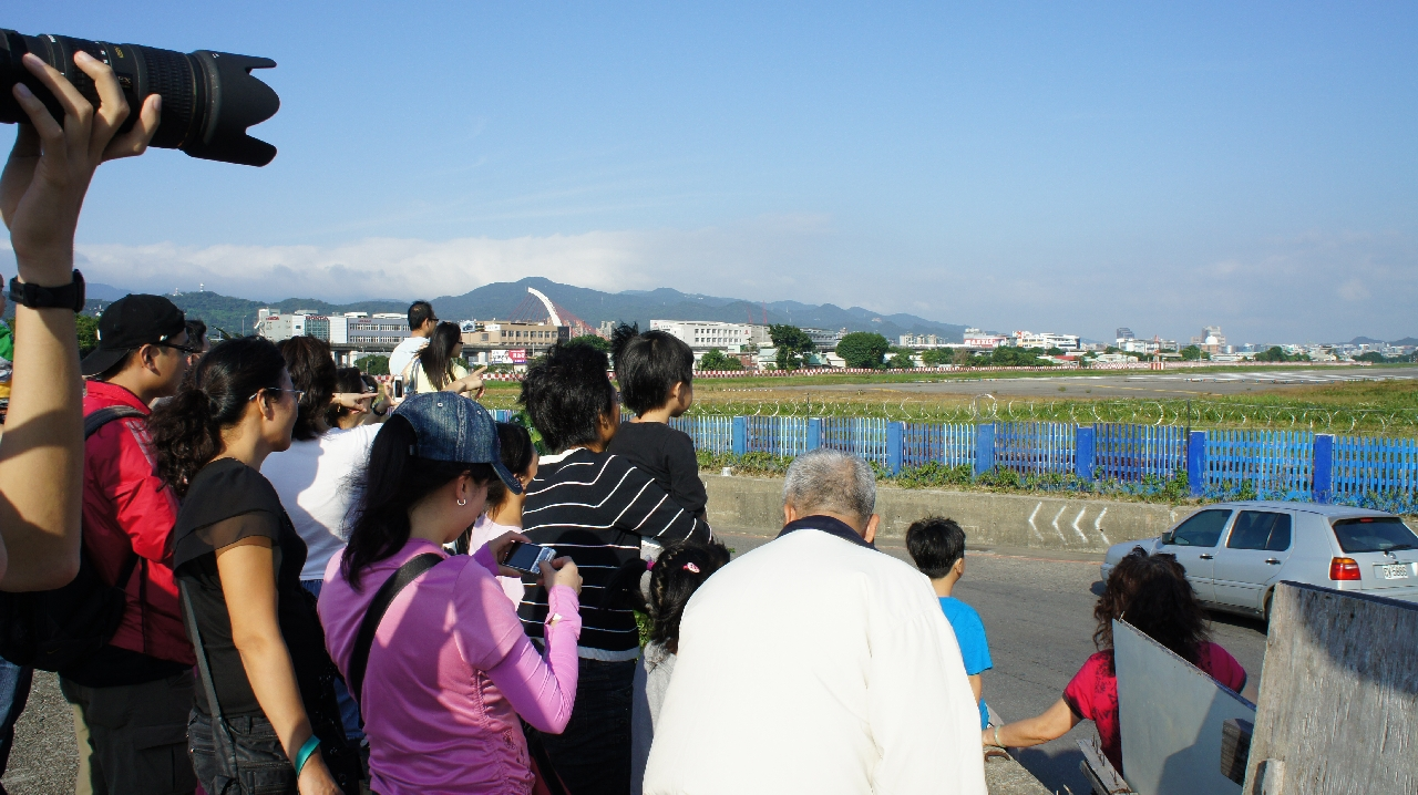 Plane Is Approaching In RCSS.中文（台灣）: 滑行道上有飛機接近，眾人一致看向機場端。